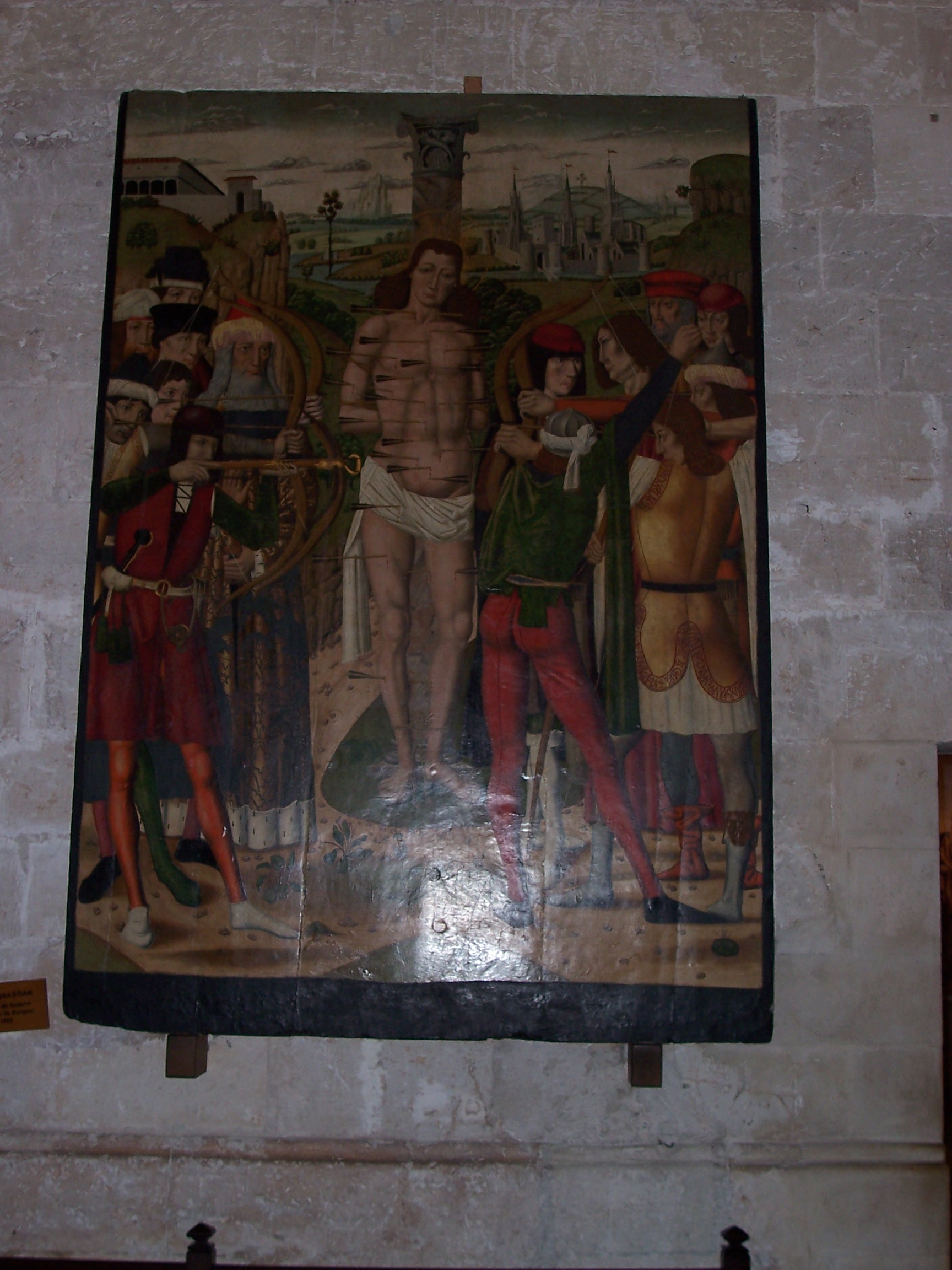 picture of Saint Sebastian in the Cathedral La Seu in Palma de Mallorca